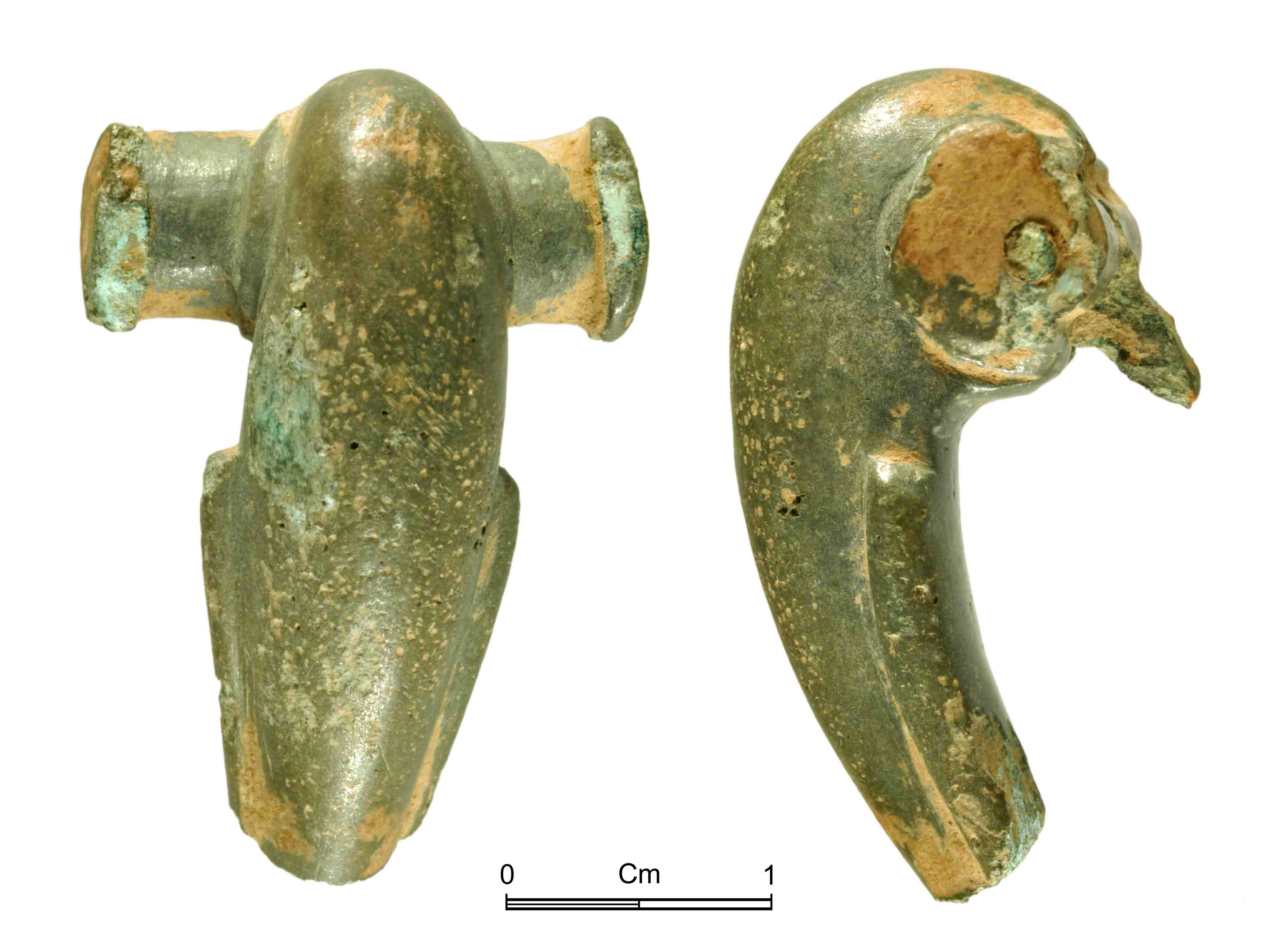 Roman bow brooch Polden Hill variant / T-shaped type